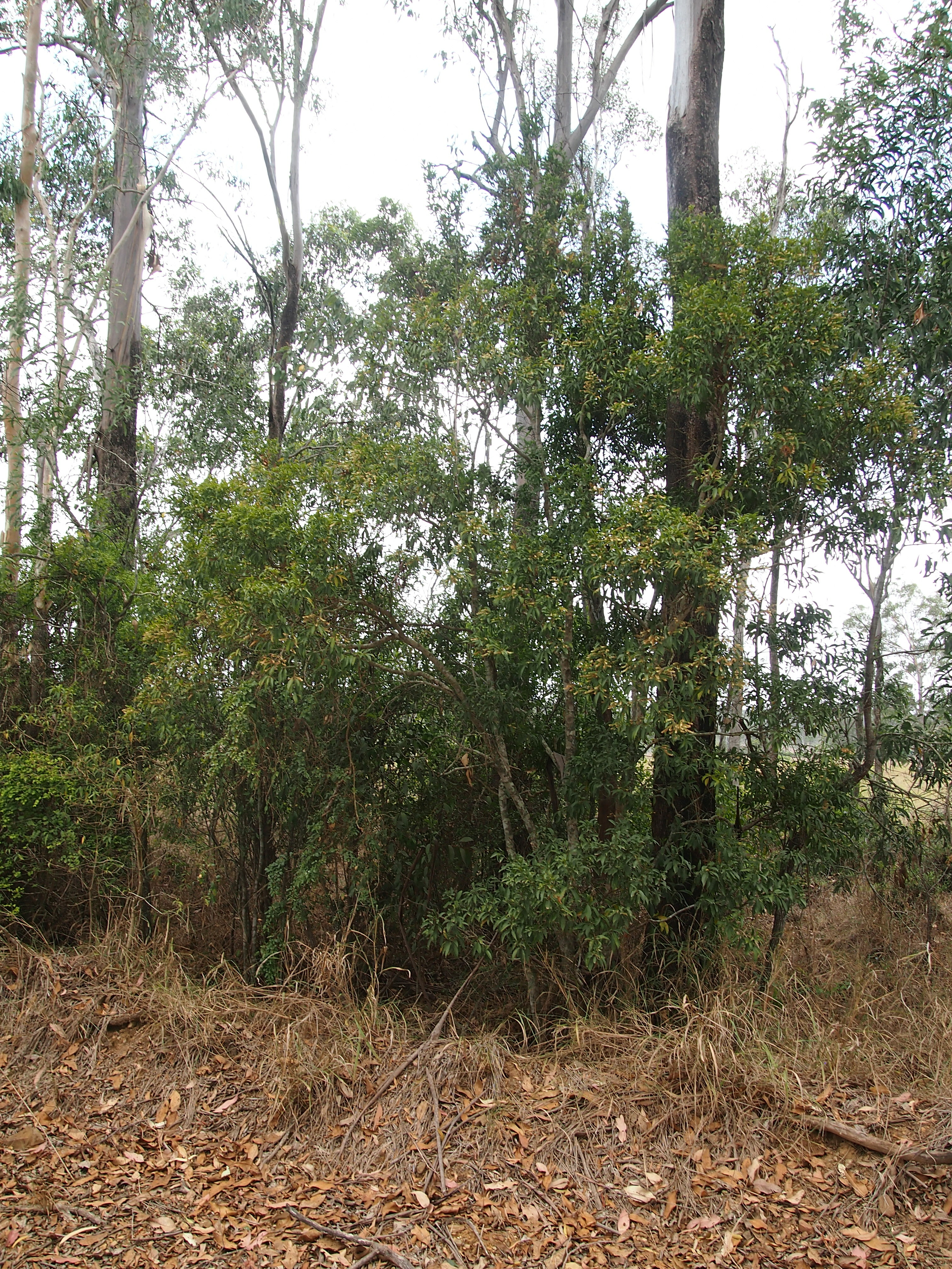 Elaeocarpus grandis sapling